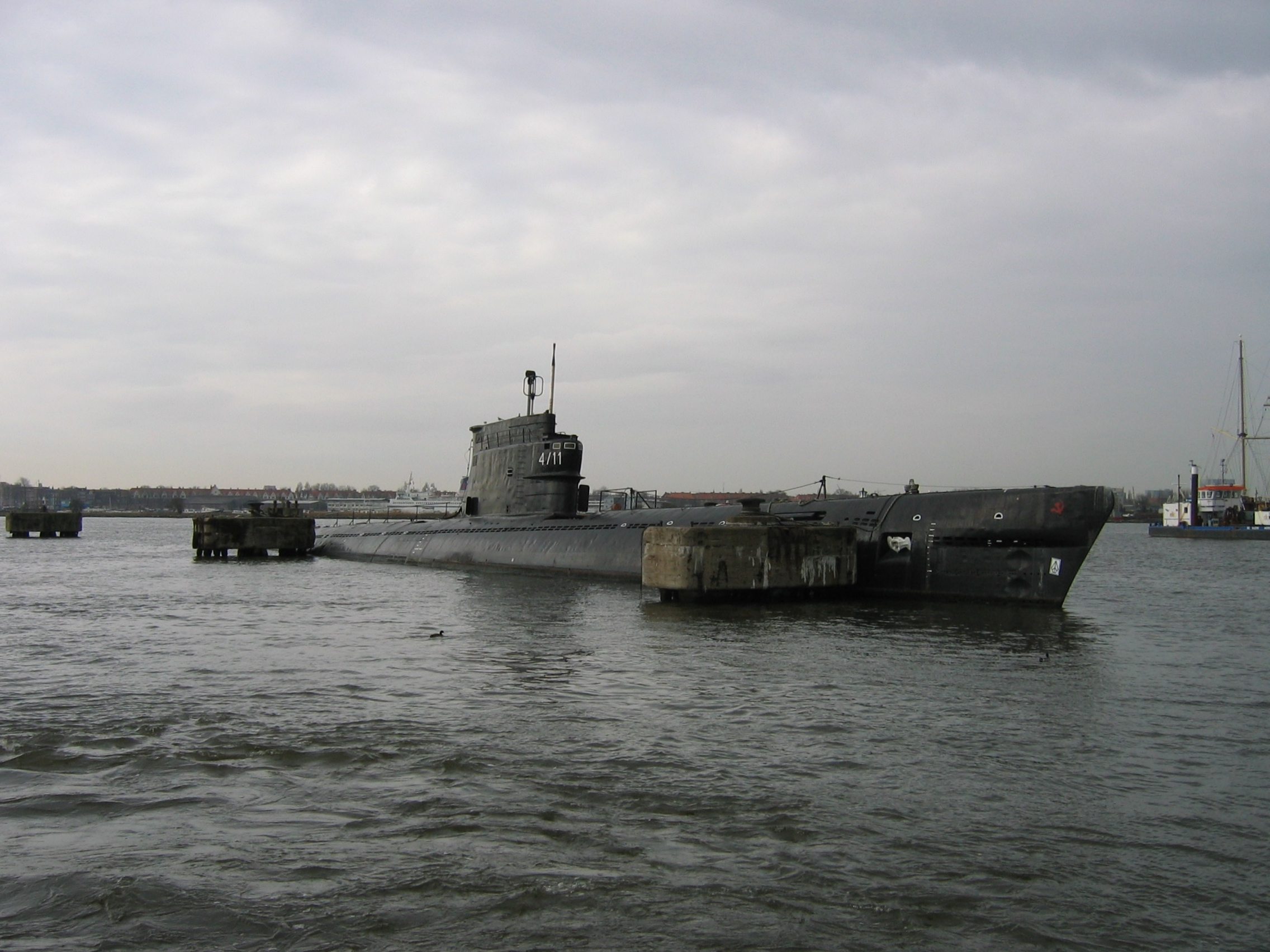 A Soviet submarine (Zulu Class Submarine, project 611) in the IJ, near the NDSM docks in Amsterdam, the Netherlands